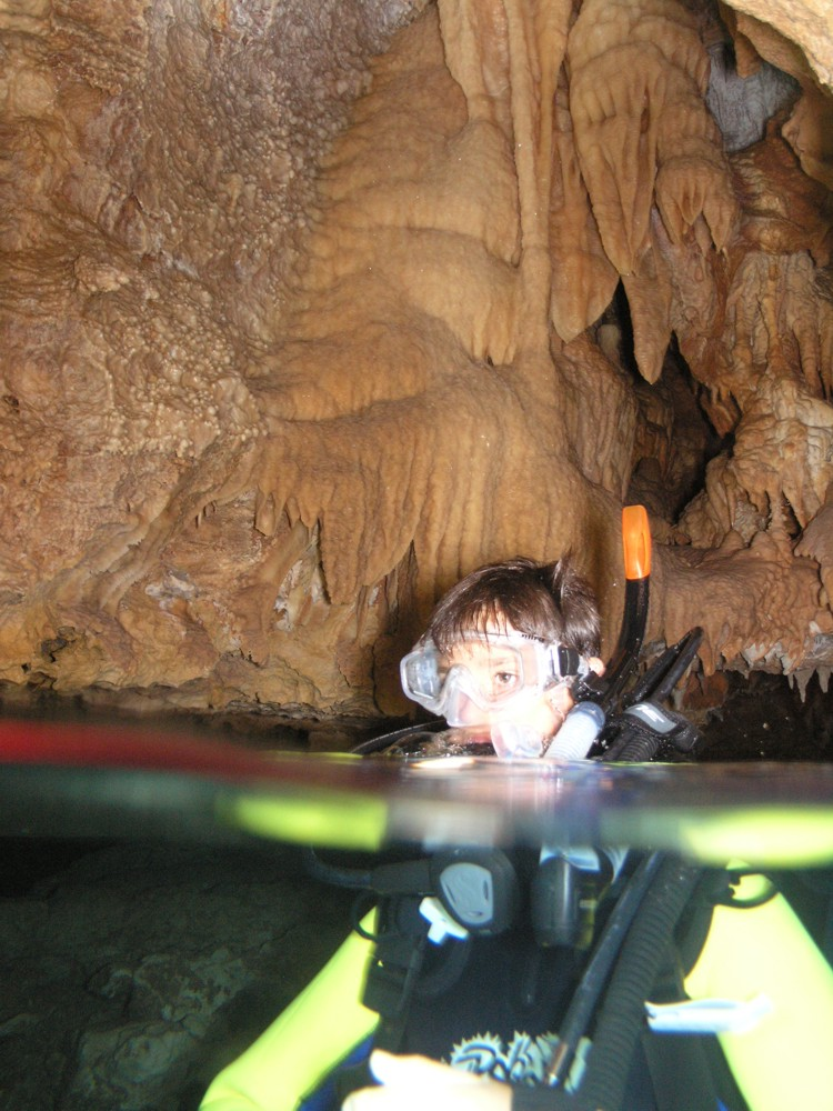 Surface in the internal lake of the Ghost Cave